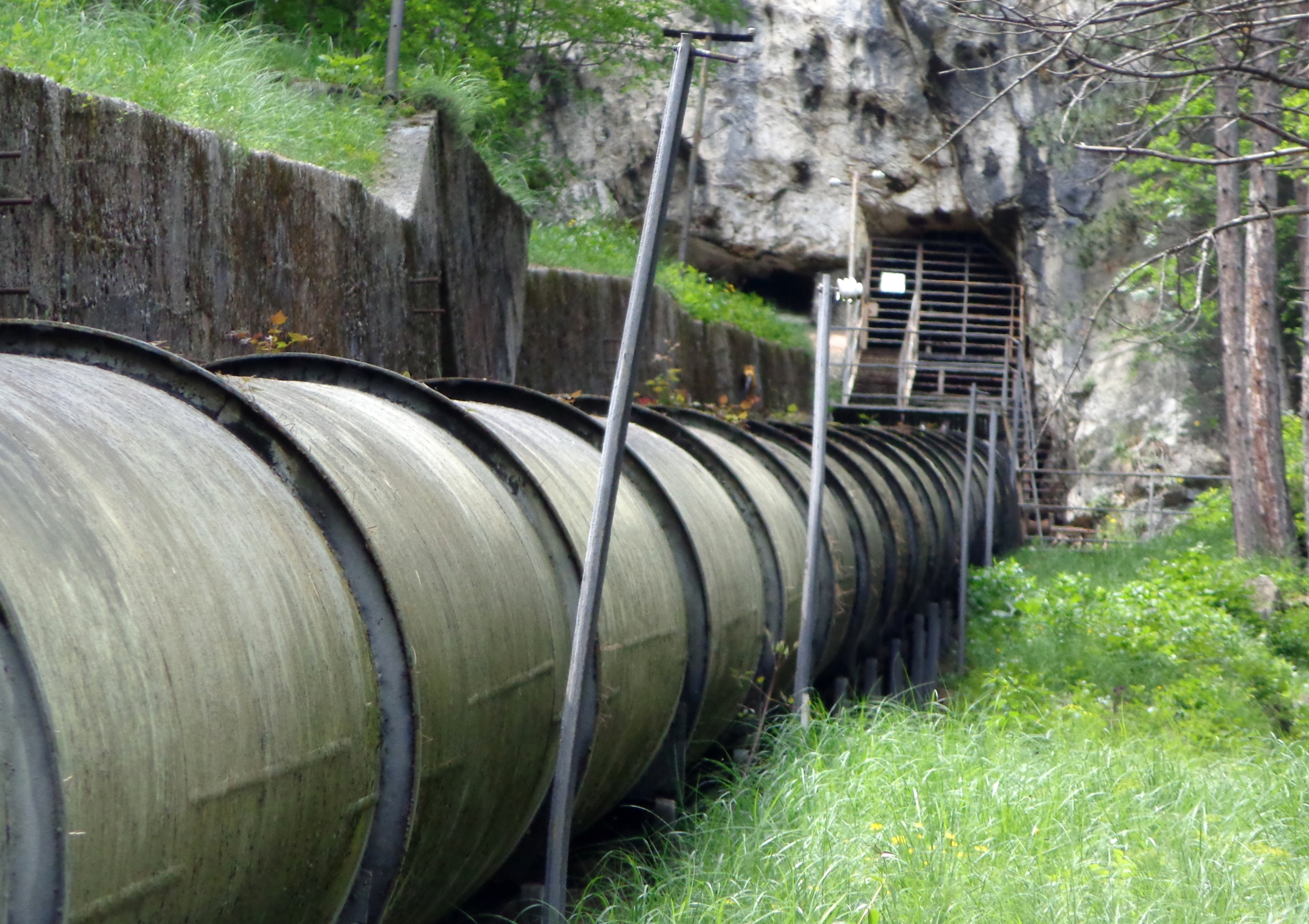 The Ponale Hydroelectric Power Plant in Riva del Garda.